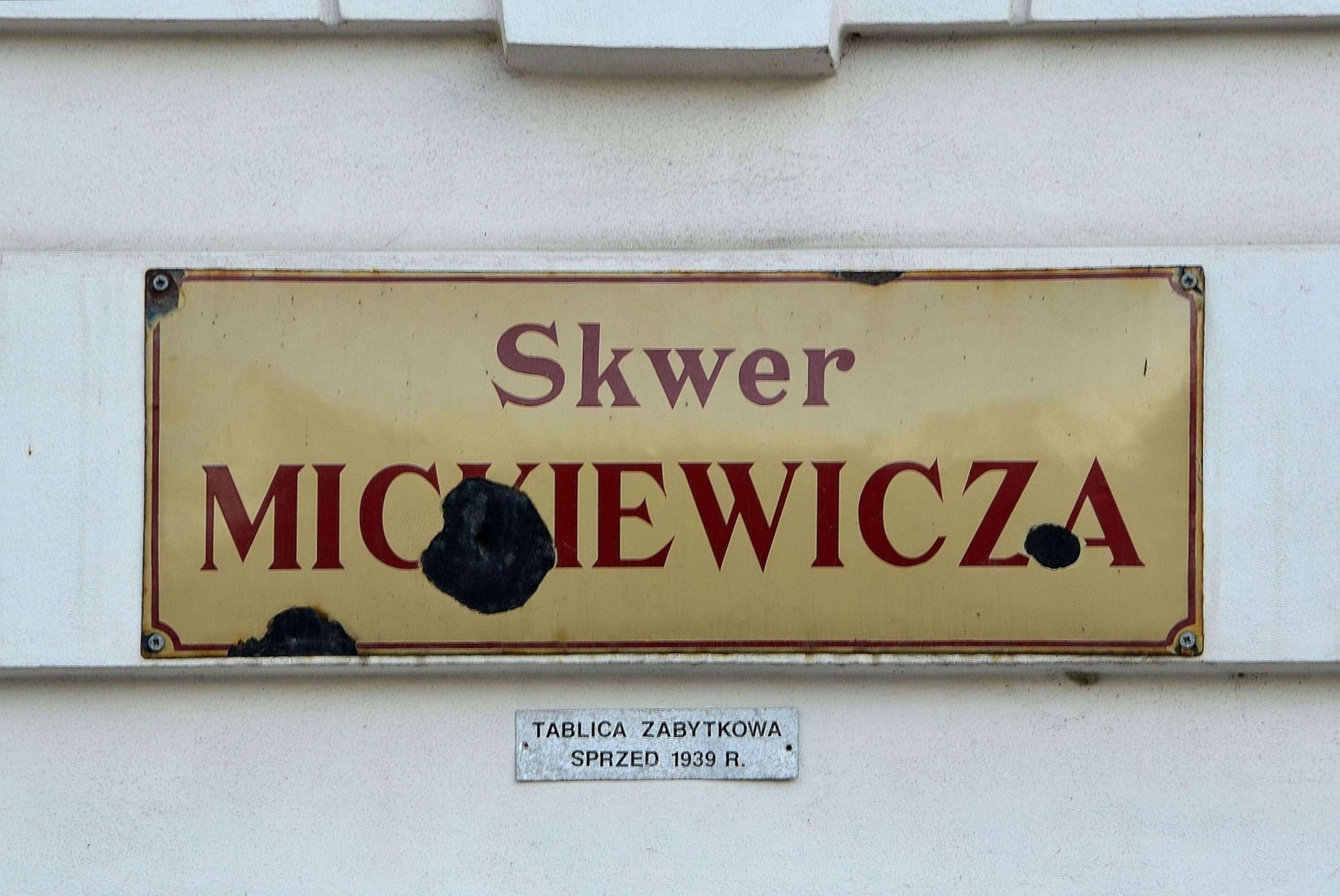 Original plaque from the intewar period on the Presidential Palace in Warsaw